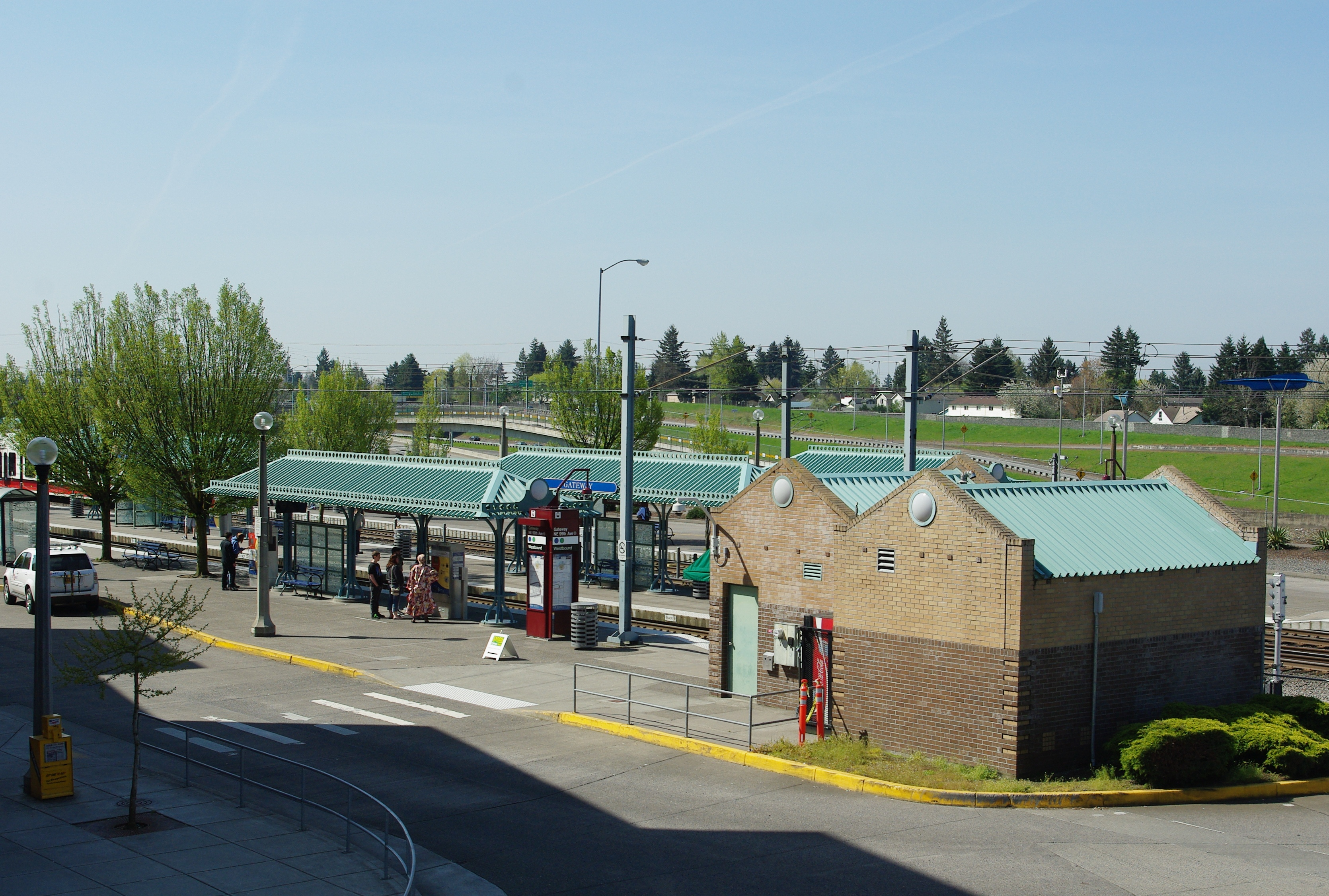 Gateway Transit Center in northeast Portland, Oregon.